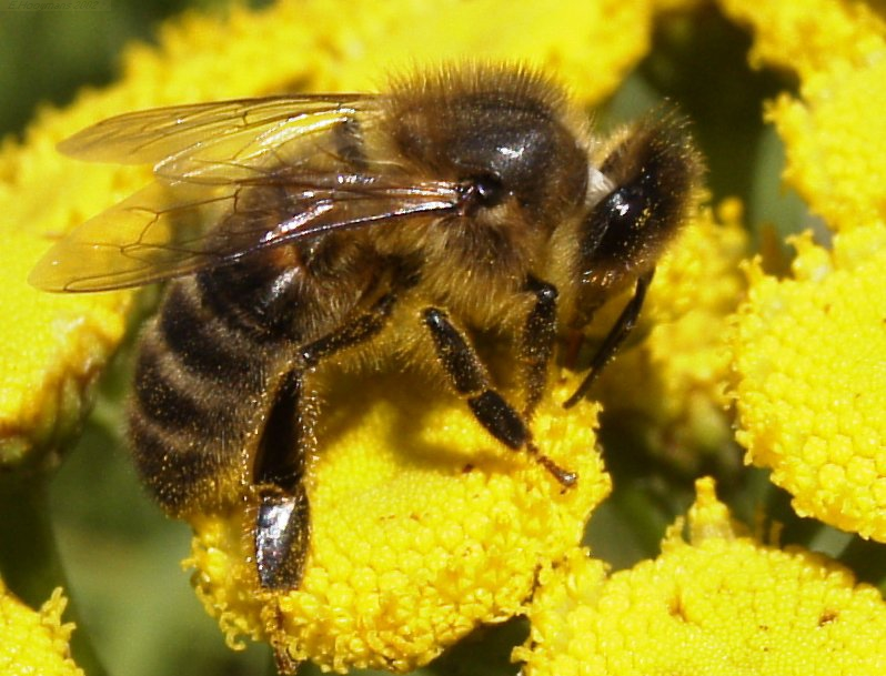 A Honey Bee. Author: Erik Hooymans.